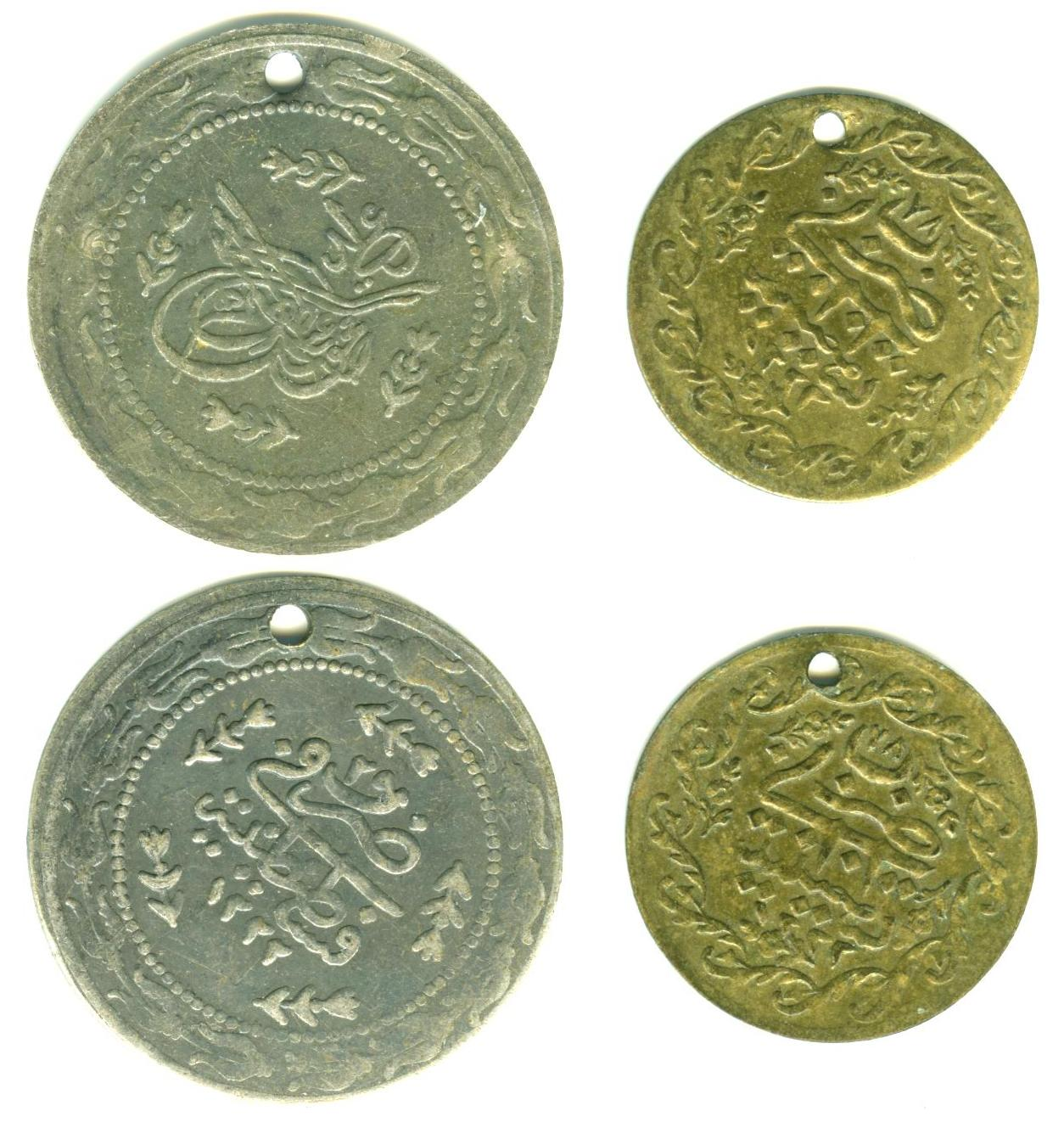 Original Ottoman coin (left) and gold-coloured (brass) replica (right), both used as ornaments. (Additional comment: I've been informed that the silver-coloured coin is actually an imitation. Note the strange single dot Q in "Qostantiniyeh" and the apparent "1222" date instead of 1223.)